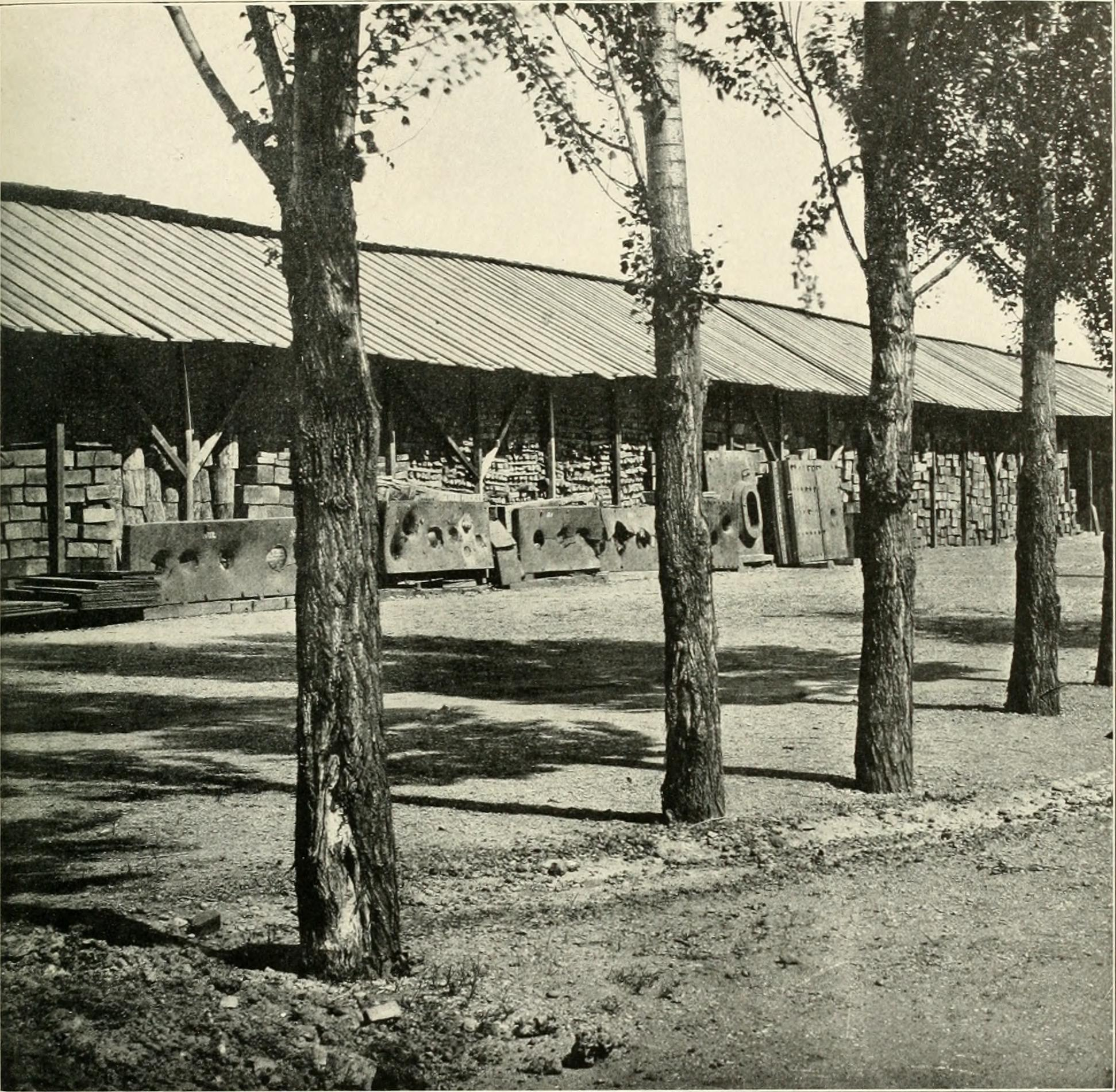 Title: The photographic history of the Civil War : thousands of scenes photographed 1861-65, with text by many special authorities Year: 1911 (1910s) Authors: Miller, Francis Trevelyan, 1877-1959 Lanier, Robert S. (Robert Sampson), 1880- Subjects: United States -- History Civil War, 1861-1865 Pictorial works United States -- History Civil War, 1861-1865 Publisher: New York : Review of Reviews Co. Text Appearing Before Image: ' Text Appearing After Image: COPYRIGHT, 1911, REVIEW OF REWIEWS CO. THE LESSON OF THE IRONCLAD—SOME OF THE FIRST TESTS AT THE NAVY-YARD Here in the Washington Navy-yard, as it appeared on Independence Day, 1866, are the evidences of whatthe American Civil War had tanght not only the United States navy bnt the worlds designers of warships.In four short years of experimentation in the throes of an internecine struggle, the Na\y Department hadnot only evolved the most powerful fighting fleet on the seas of the world, but had stamped it with distinct-ively American ideas. In the picture, a year after the war, can be seen how the navy had begun to im-prove the experience it had gained. Already the tests of piercing power of projectiles upon armor i))atelie all about, precursors of the steel battleships and big guns that are the marvel of the present day. Thewooden hulls of the early monitors rotted away, and as they did so steel construction was gradually evolved.The monitor principle was finally abandoned in its en